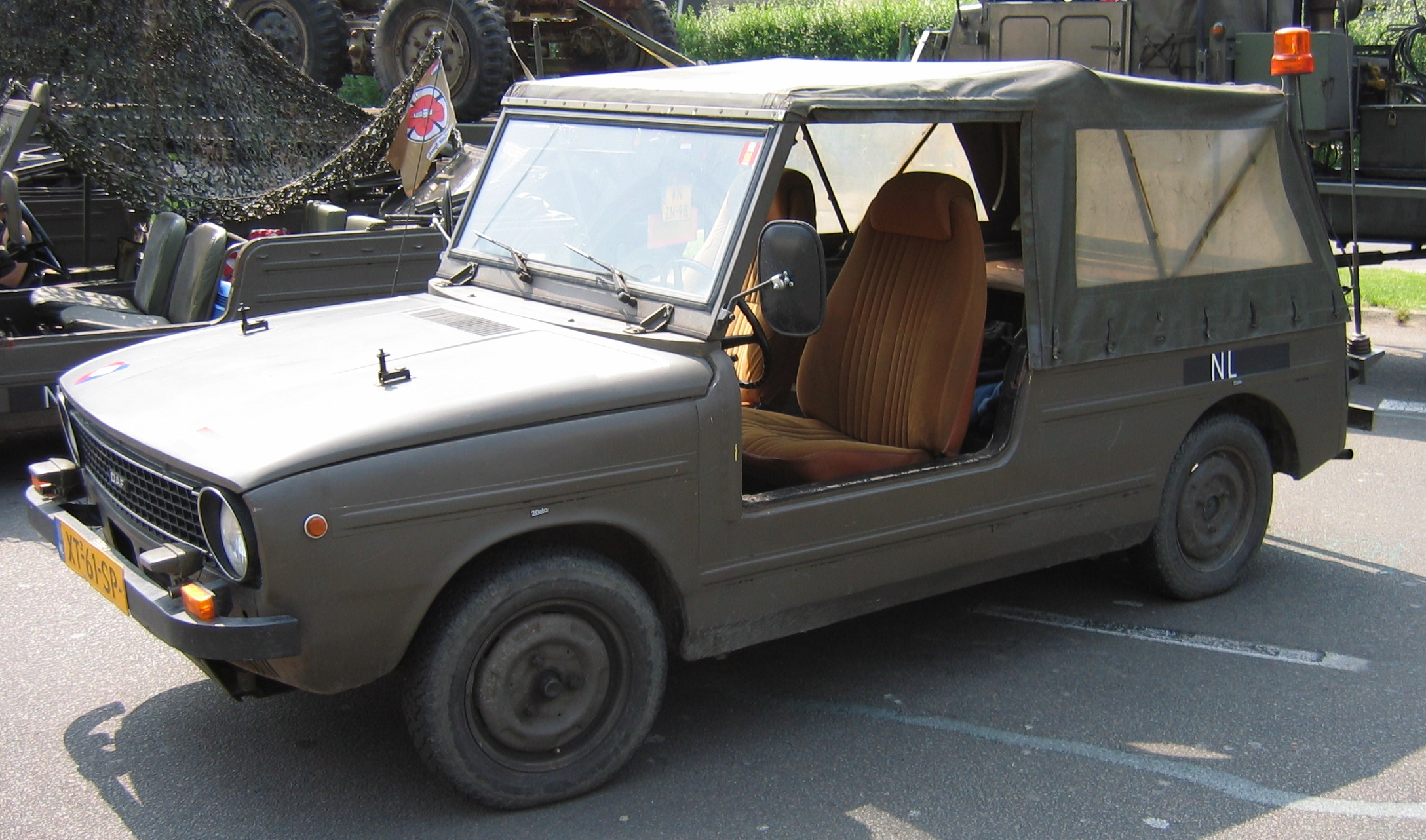 A DAF 66 YA at the DAF exposition during the Eindhoven Pole Position weekend.